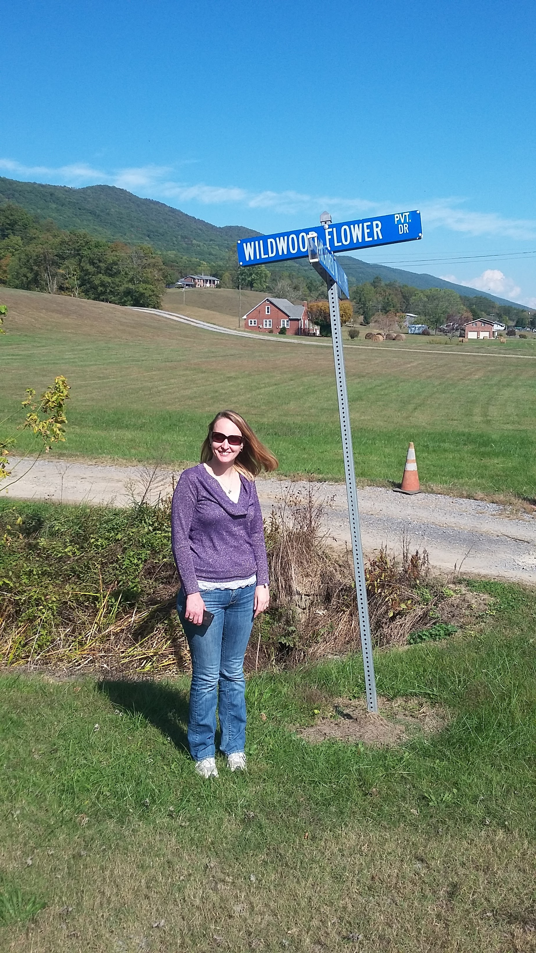 Wildwood Flower Drive at the Carter Fold at Maces Springs, Virginia now Hiltons, Virginia. The Drive is named after the Carter Family hit song.